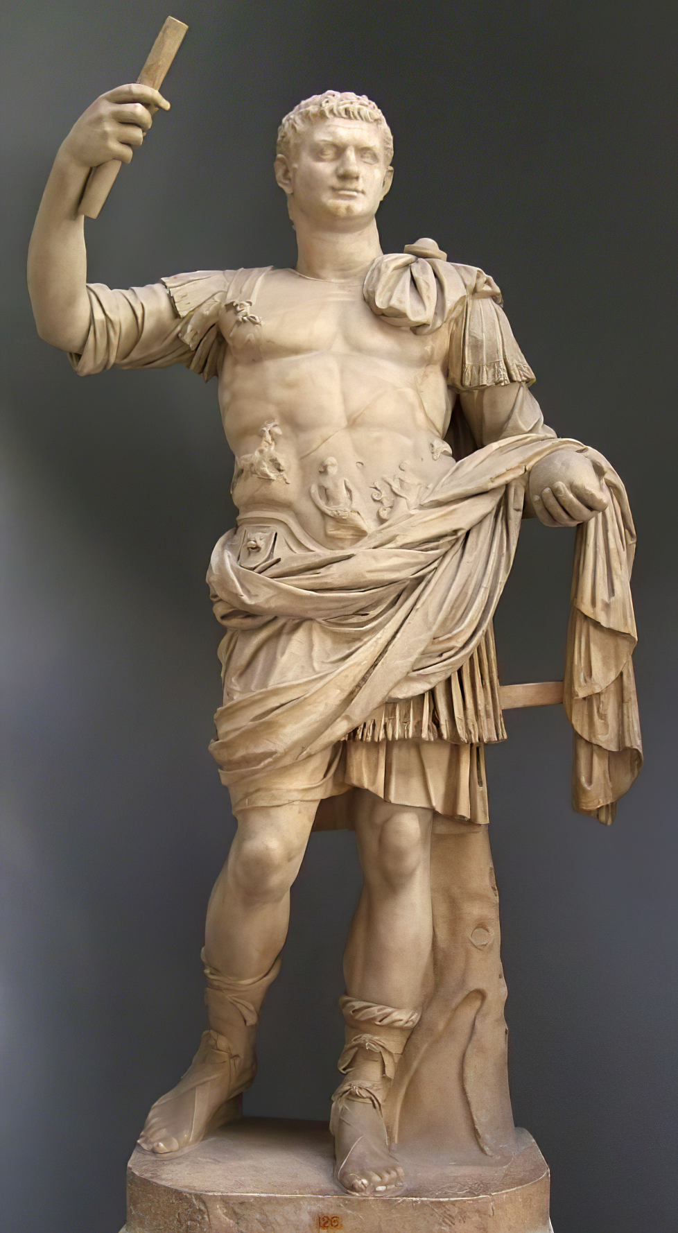 Statue of Emperor Domitian, Vatican Museums, Vatican City. The head may have been recut from Nero.